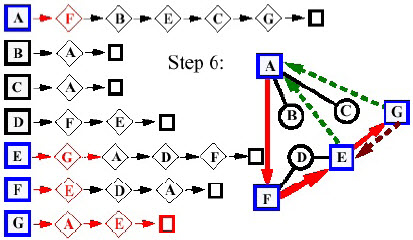 Dry run Depth-first search Algorithm in Graph, step 6